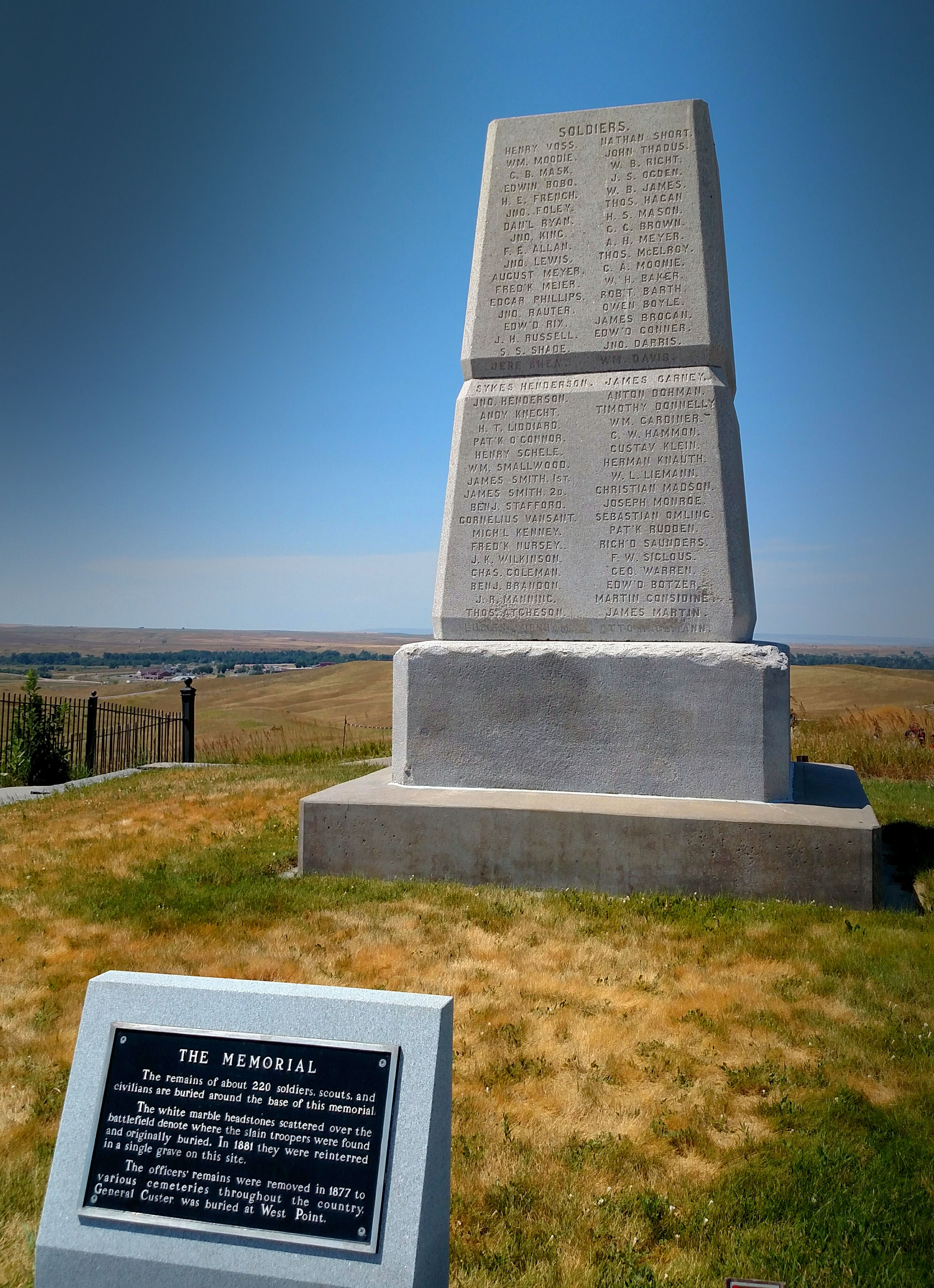 West side of memorial erected to commemorate the fallen soldiers, scouts, and civilians who fell and those who are buried at Little Bighorn Battlefield National Monument, Crow Agency, MT.